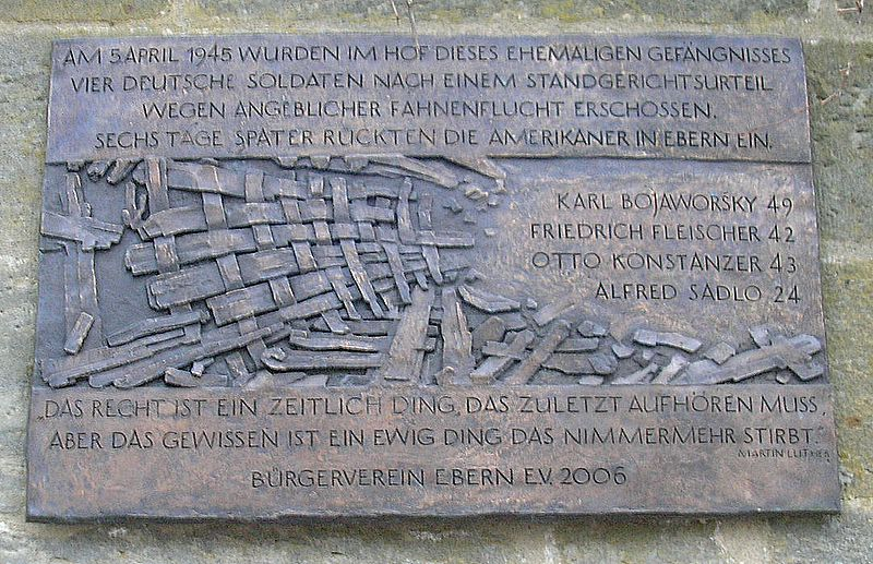 Ebern (Landkreis Haßberge, Lower Franconia, Germany). Memorial board at the former prison